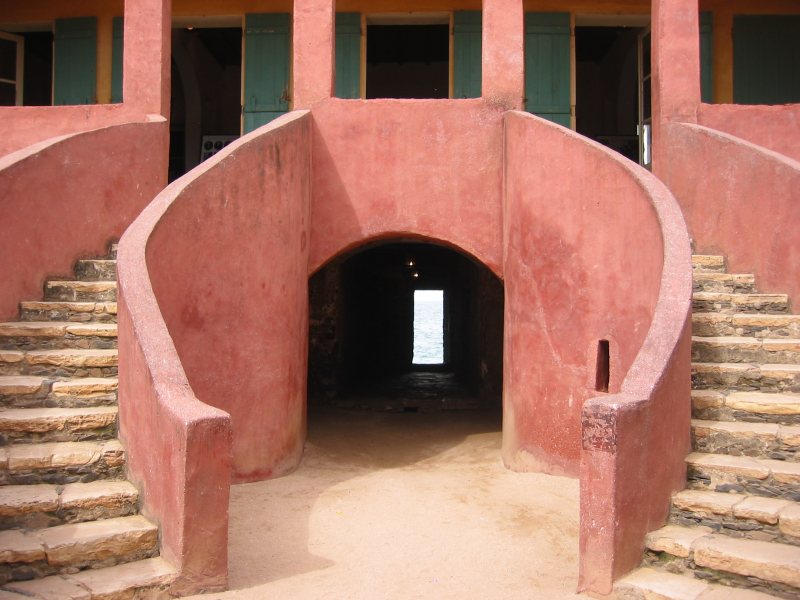 House of Slaves, on the Island of Gorée, off of the city of Dakar. This picture shows the narrow door —aka the Point-of-no-return— out of which slaves were loaded onto Americas-bound ships.